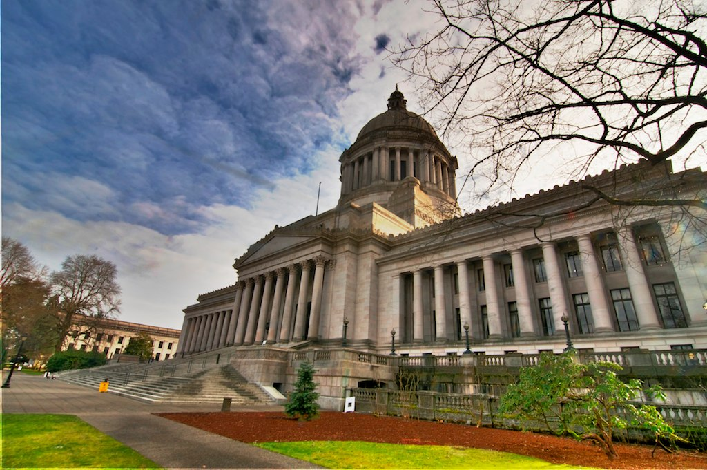 Washington State Capitol Historic District, State Capitol and environs Olympia